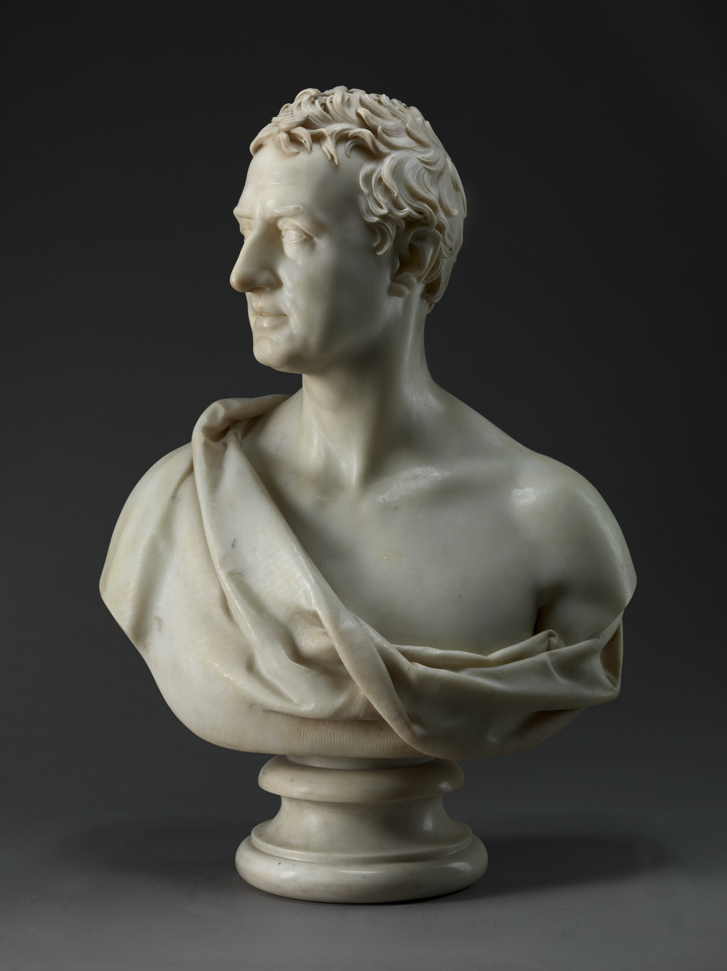 "Viscount Castlereagh," marble bust, by the English sculptor Francis Leggatt Chantrey, dated 1821. 30 inches x 22 inches x 8 1/4 inches (76.2 cm x 55.9 cm x 21 cm). Courtesy of the Paul Mellon Collection, Yale Center for British Art, Yale University, New Haven, Connecticut.